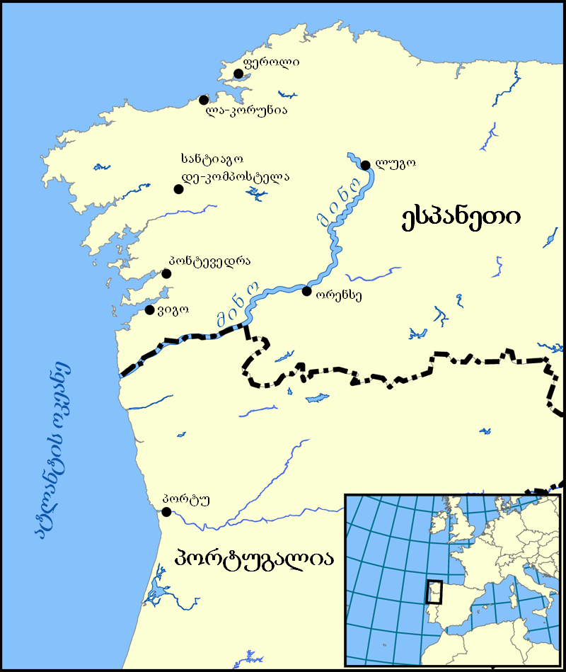 Map of Minho River, Georgian